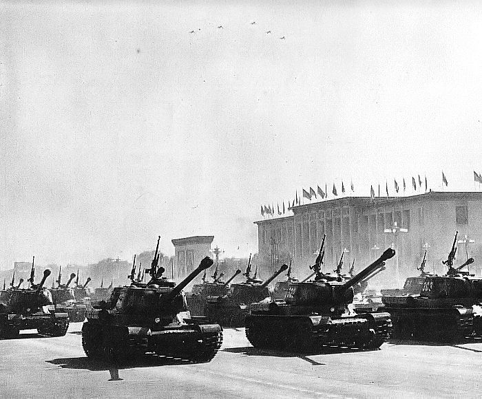 China 10th Anniversary Parade in Beijing